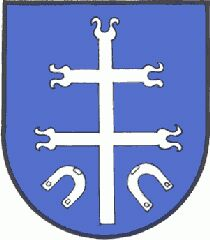 Coat of arms of Empersdorf, Styria